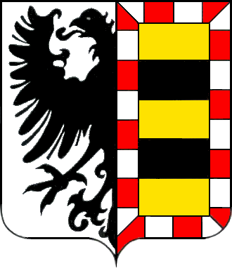 Coat of arms of Halen